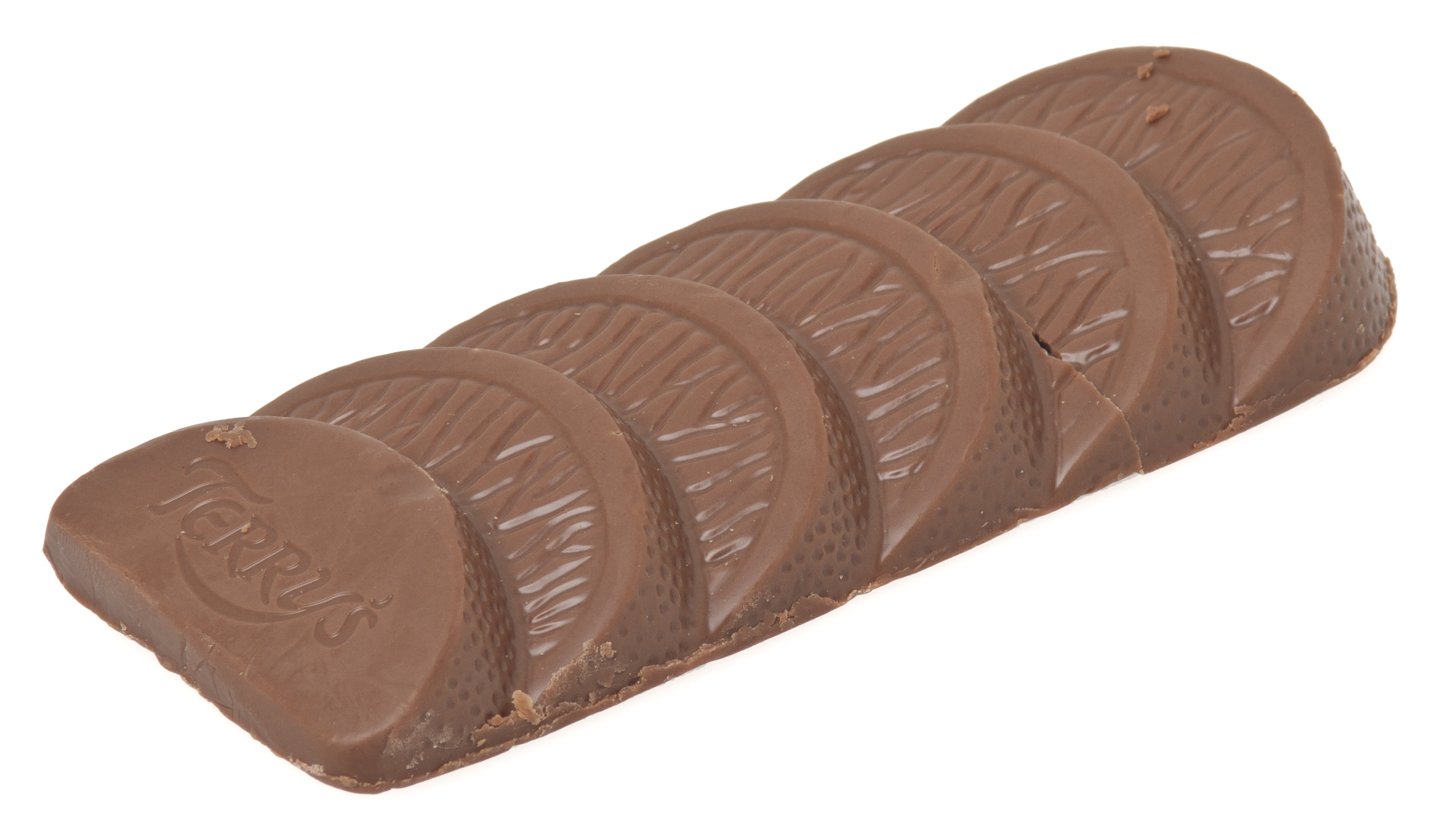 A Terry's Chocolate Orange bar, a candy-bar version of their chocolate orange.